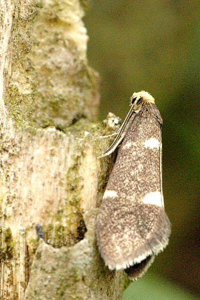 Picture taken in Commanster, Belgian High Ardennes . Species: Incurvaria masculella female